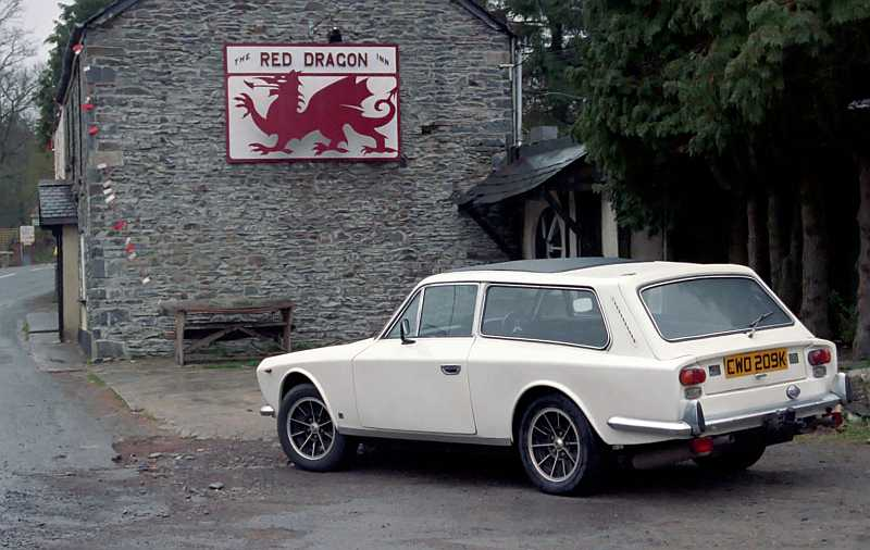 Gilbern Estate